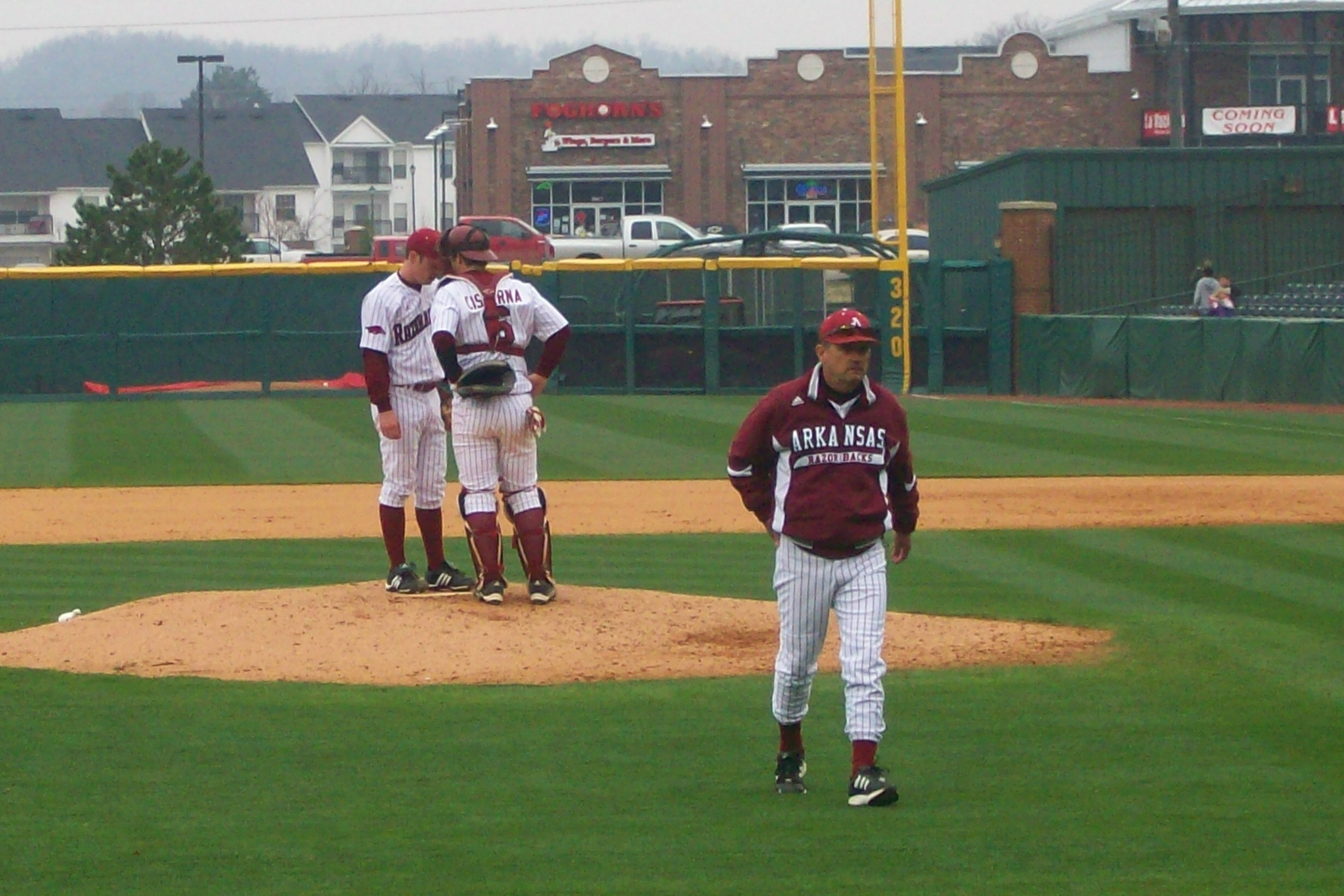 Arkansas Razorbacks baseball coach Dave van Horn departs after a mound visit